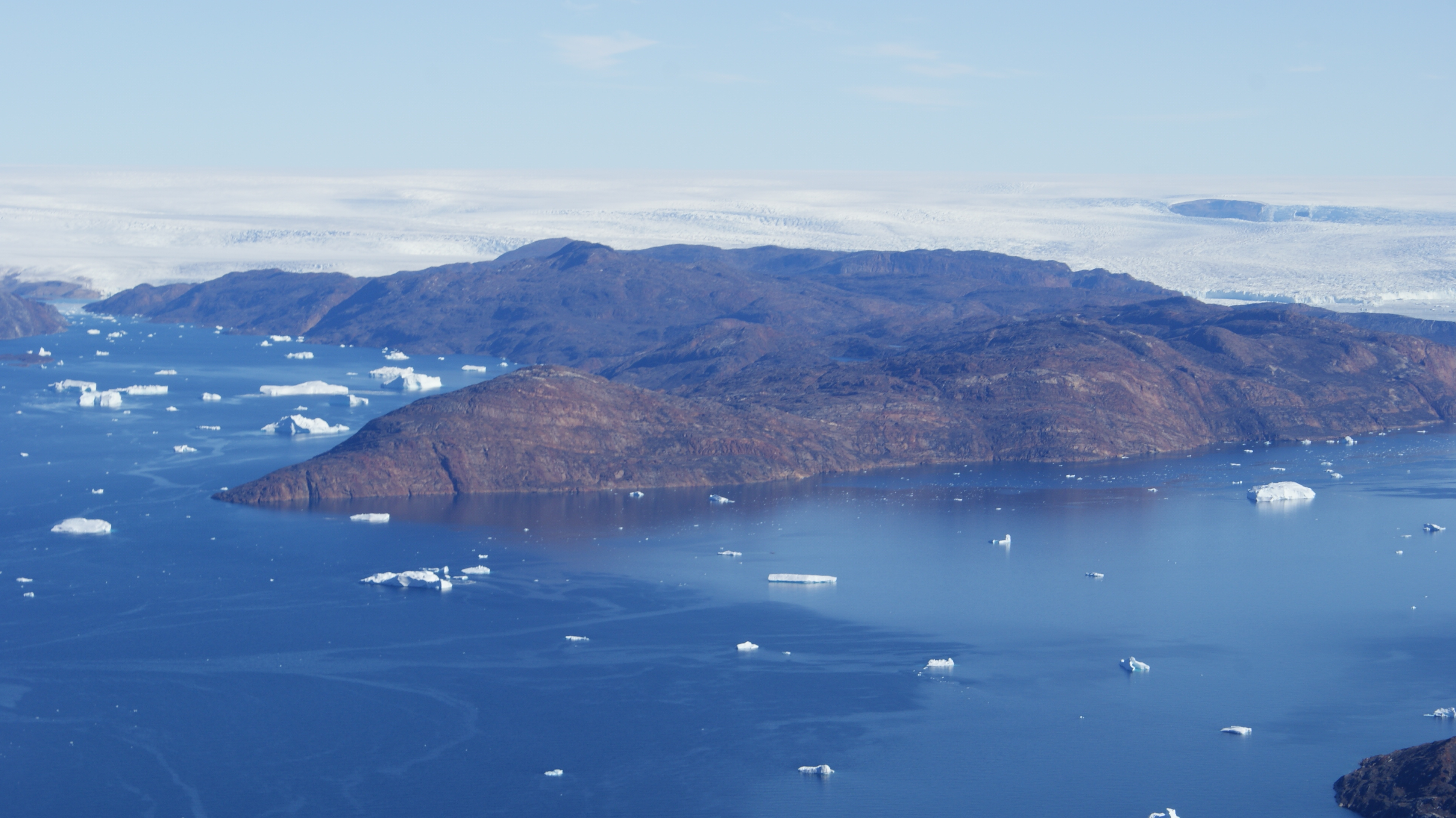 Aerial view of northern Sanningassorsuaq Peninsula, Upernavik Archipelago, Greenland. Photographed from the Air Greenland Bell 212 during the Kullorsuaq-Nuussuaq flight. Ikerasaa Strait on the left, Greenland Icesheet on the horizon.